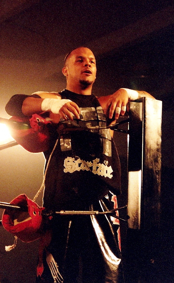 the wrestler Homicide